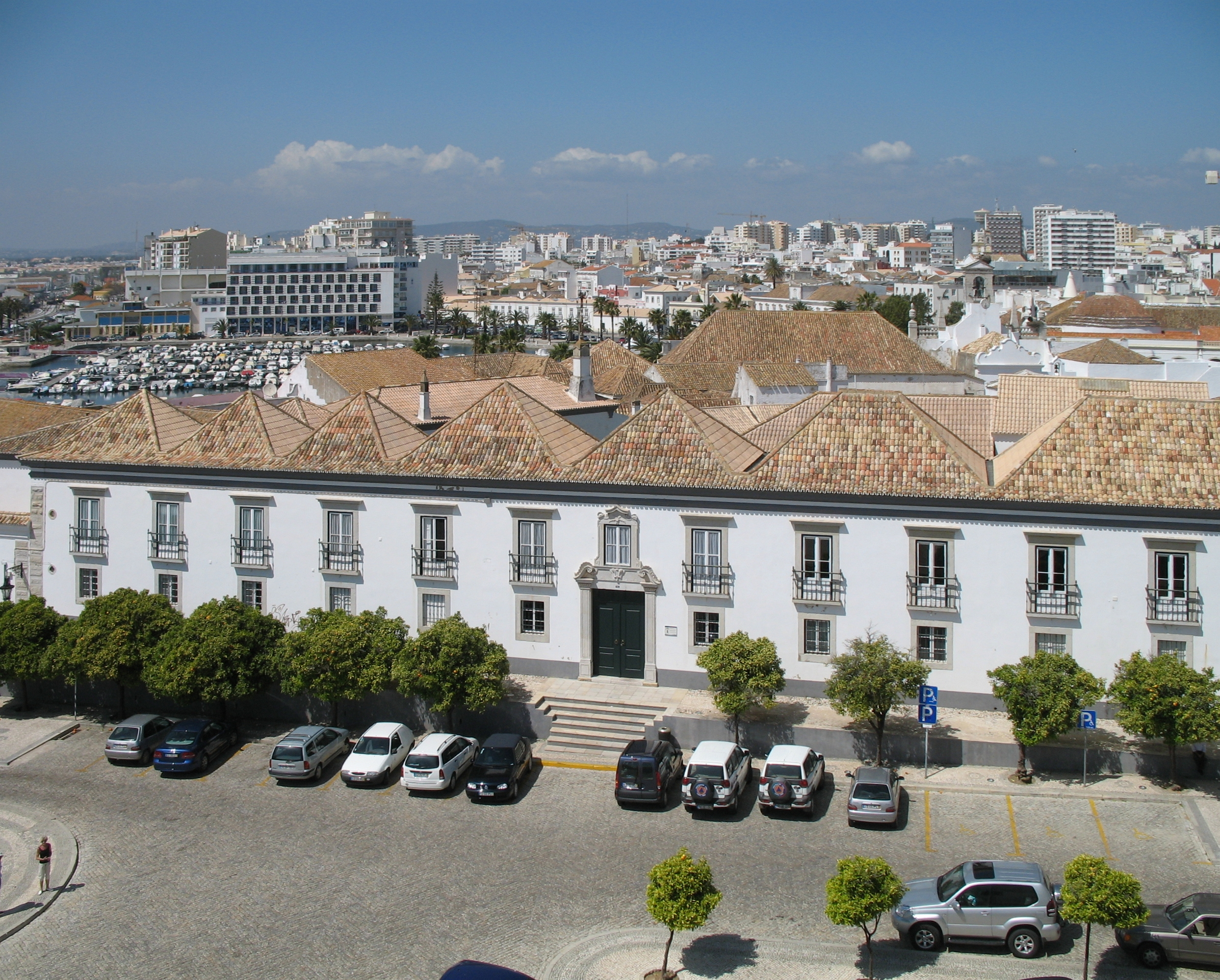 Faro (Portugal): Sé Place, Bishop's House